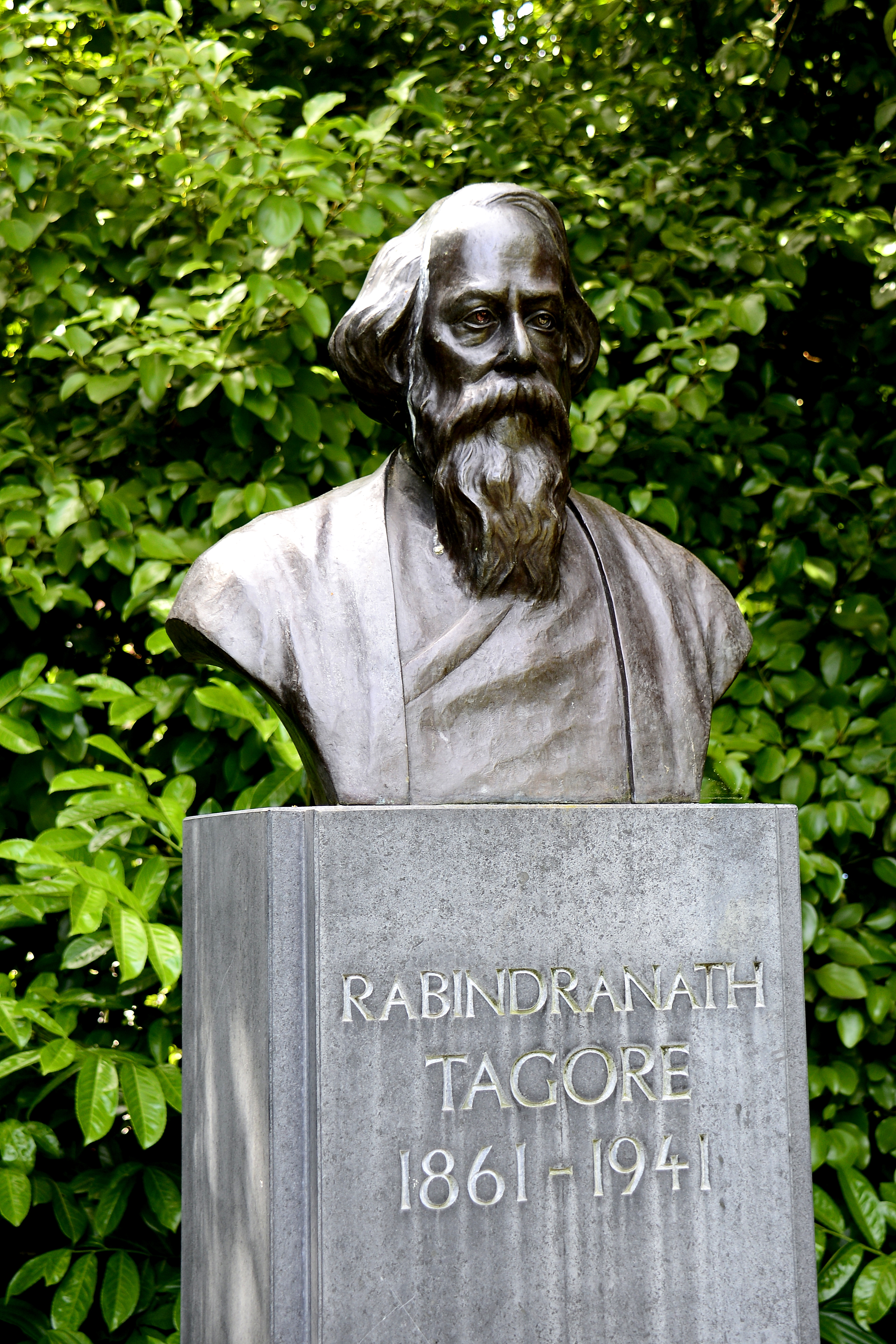 Rabindranath Tagore's bust at St Stephen's Green Park, Dublin, Ireland.